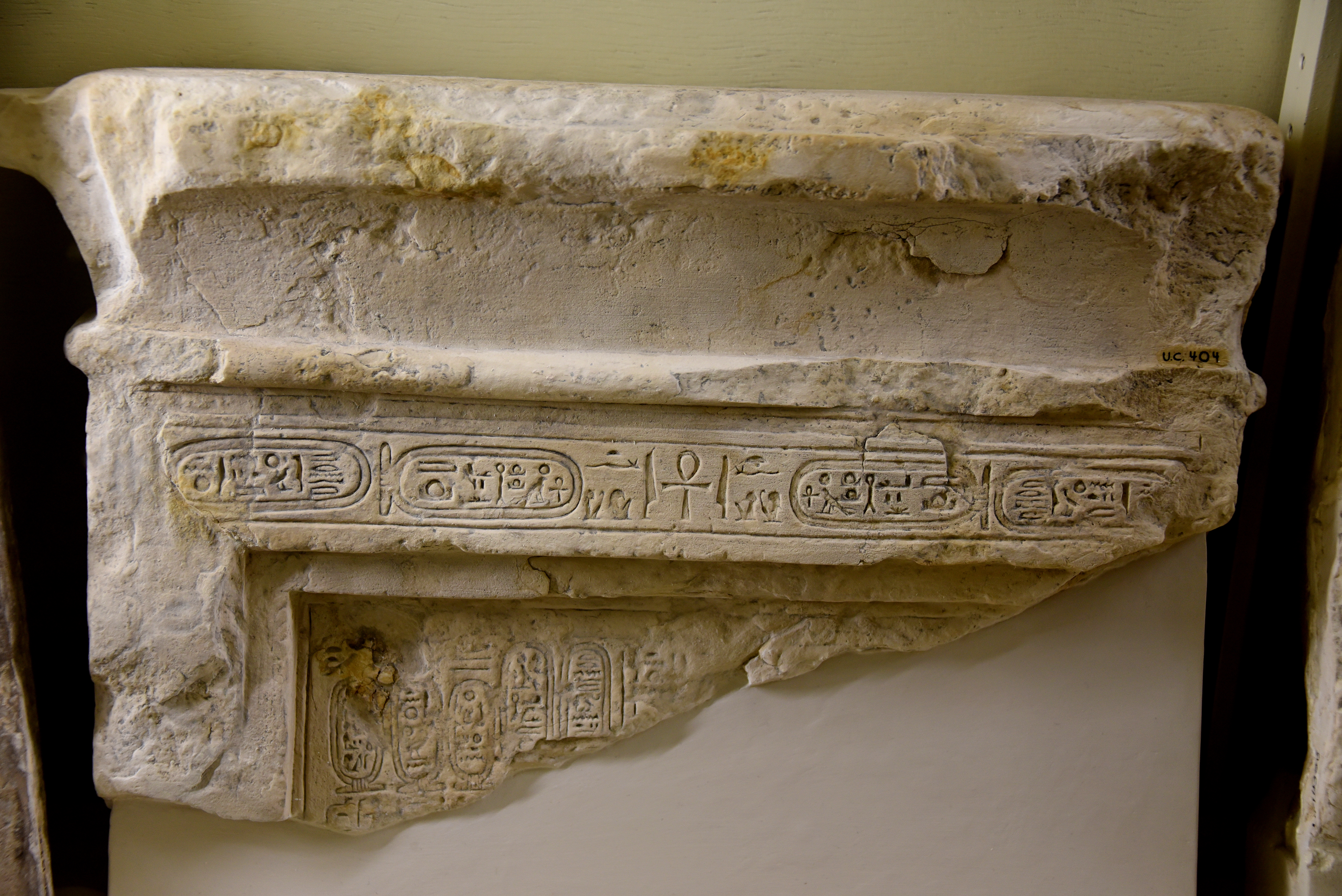 Fragment of a stela showing cartouches of Akhenaten, Nefertiti, and Aten. From Amarna, Egypt. 18th Dynasty. The Petrie Museum of Egyptian Archaeology, London. With thanks to the Petrie Museum of Egyptian Archaeology, UCL.